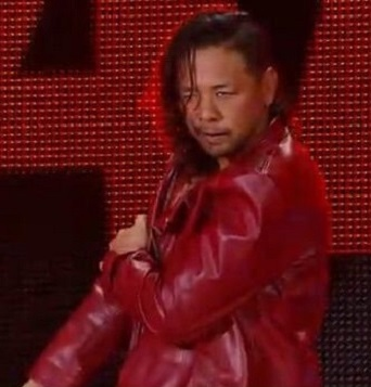 shinsuke nakamura at nxt event